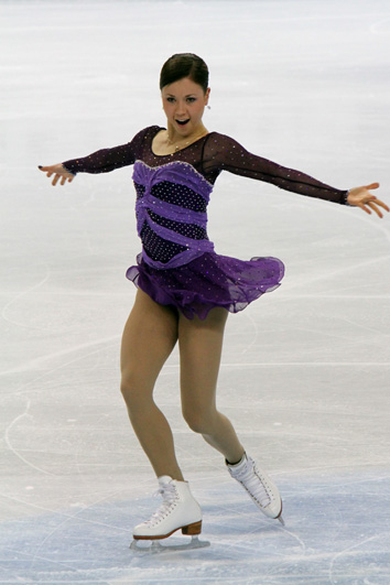 2010 World Figure Skating Championships - Laura Lepistö